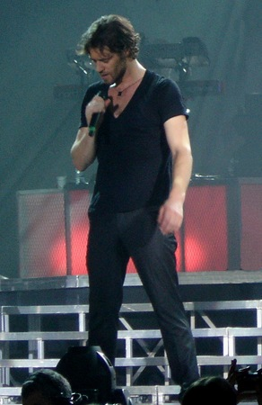 Take That member Howard Donald performing in Newcastle, England. Cropped and retouched version of this File:Howard_Donald.jpg